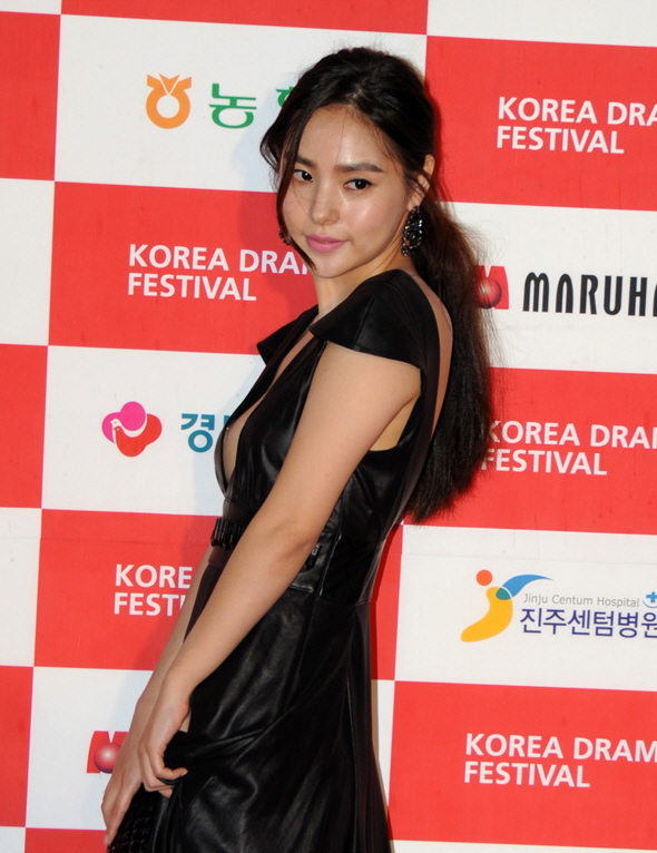 Min Hyo-rin at Korean Drama Festival on October 4, 2010